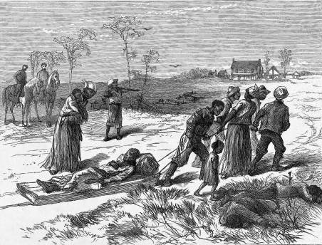 "The Louisiana Murders—Gathering The Dead And Wounded". Published in Harper's Weekly May 10, 1873, page 397 after the Colfax massacre in Colfax on April 13, 1873.